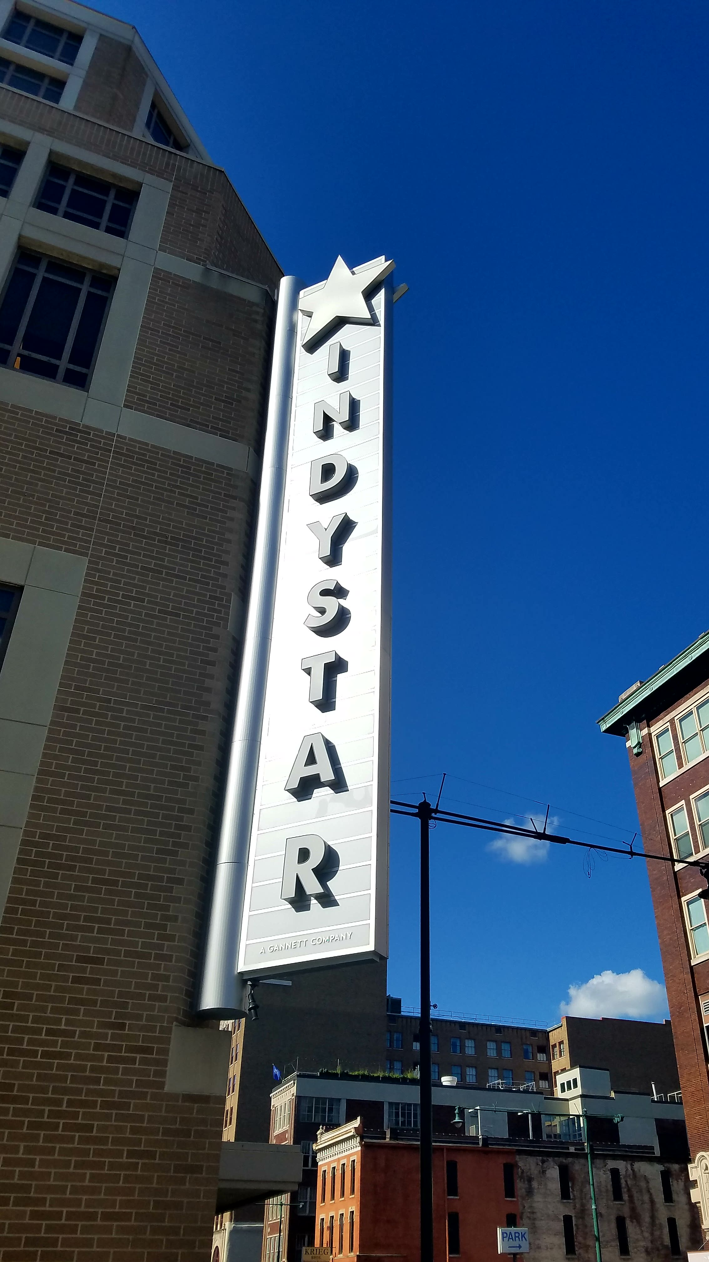 The Indianapolis Star marquee at Circle Centre Mall. The newspaper's headquarters are at West Georgia Street and South Meridian Street in downtown Indianapolis.